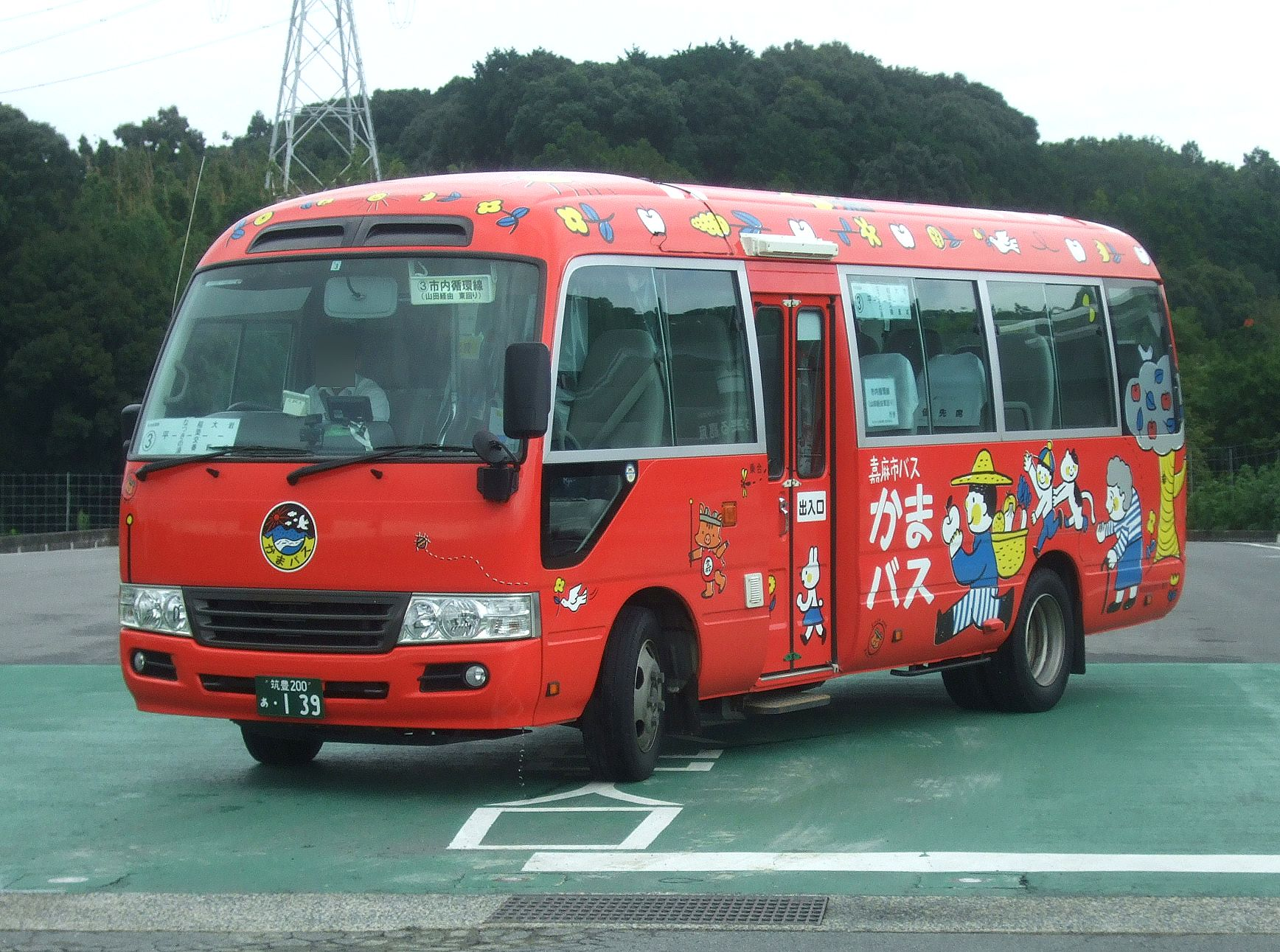 Kama City community bus "Kama-Bus" Company:Himawari Kanko Bus Use:transit bus (community bus) Car license:FOC200 A 139 Chassis manufacturer:Toyota Type:Coaster Coachbuilder:Gifu Auto Body Location:Kama City Bus Station, Kama City, Fukuoka, Japan.